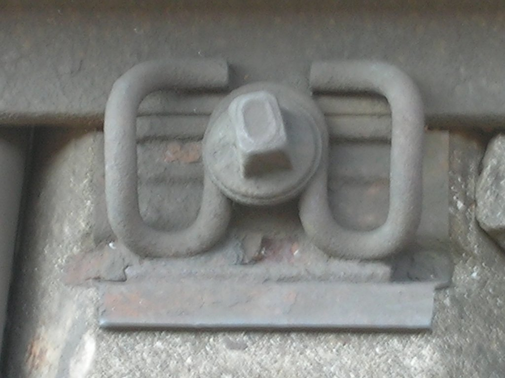 Screwless attaching of the rails with Pandrol? Vossloh? (see discussion) type spring.